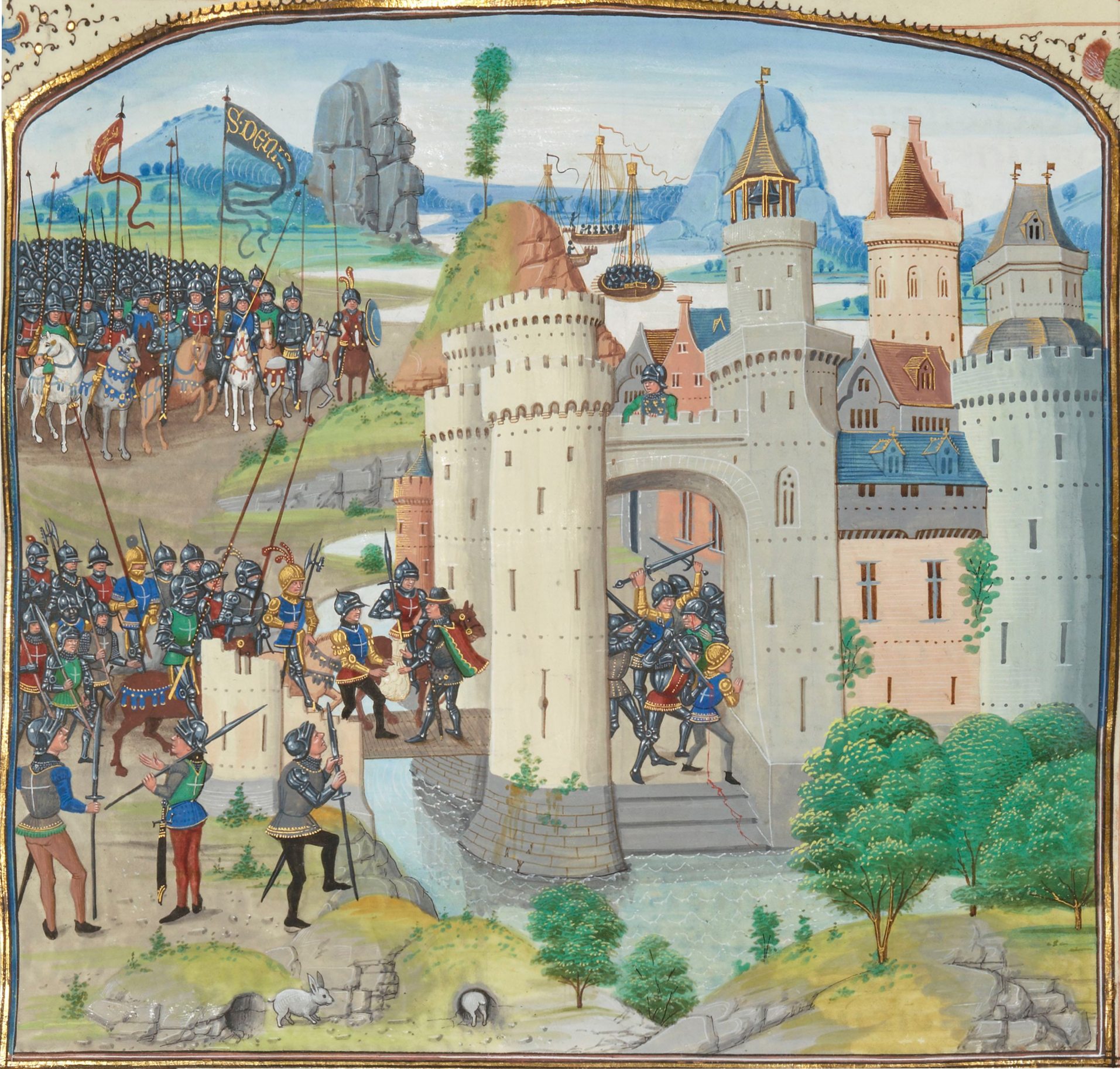 Depiction of the Battle of Calais, 2 January, 1350 in Froissart's chronicles